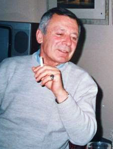 Krusevac, Djuza Stoiljkovic and Borislav Pekic in Krusevac, 1991